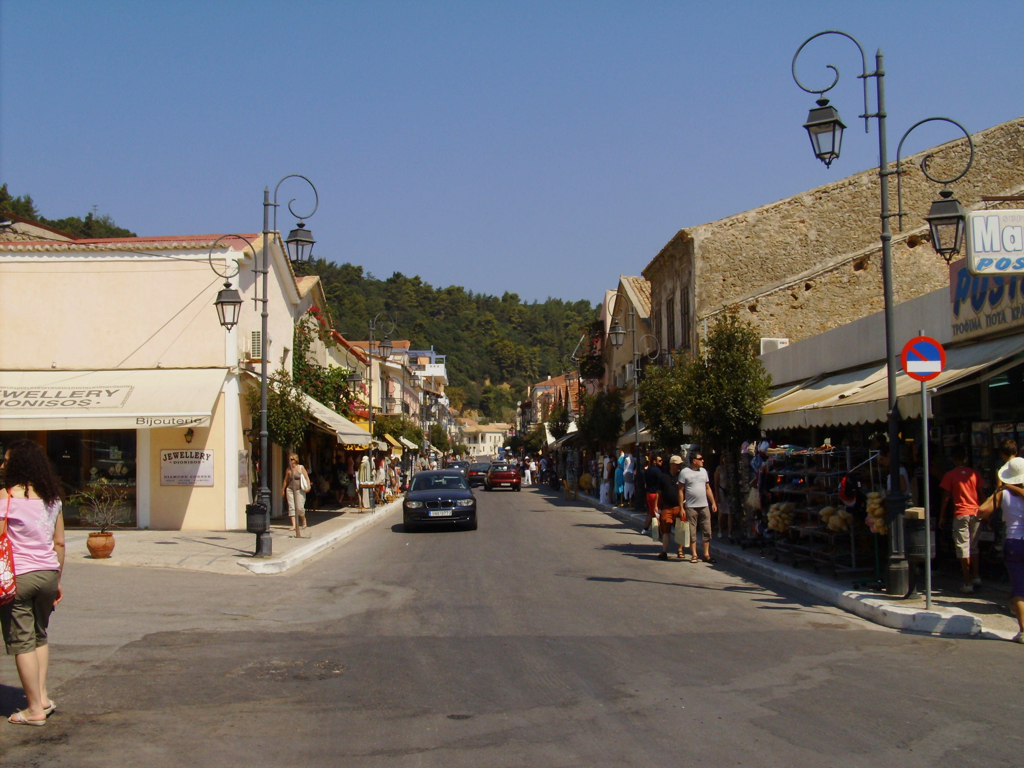 The main street of Katakolo, Greece